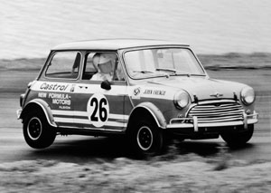 John French in the Mini Cooper S at Lakeside International Raceway, 16th May 1971. Photo by Graham Ruckert.